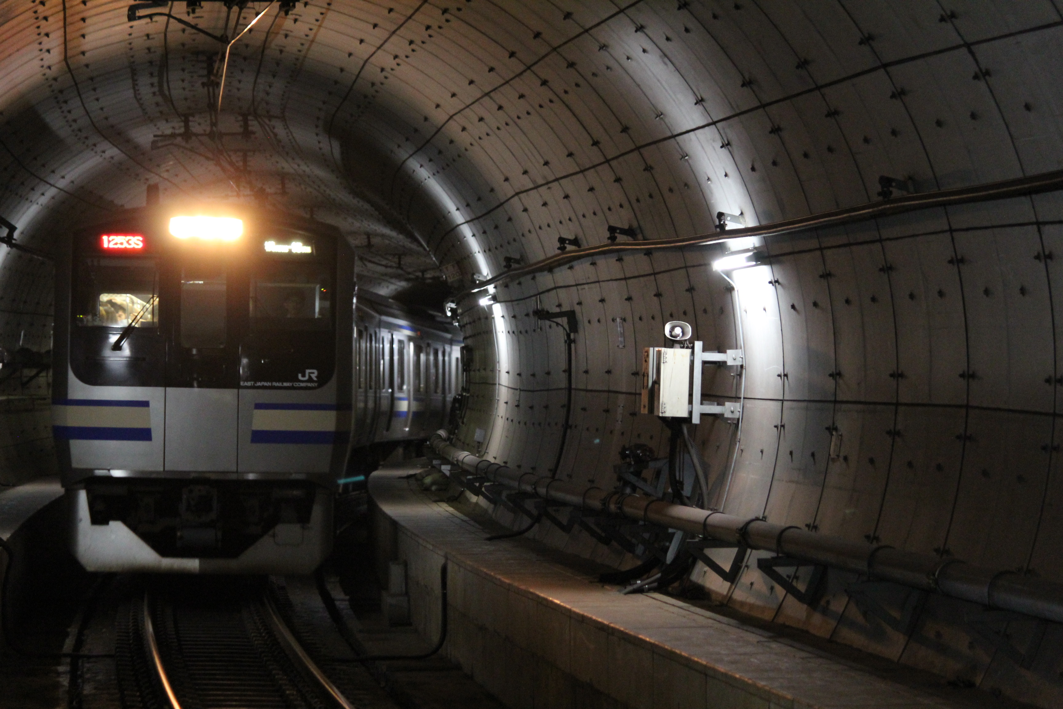 A JR East E217 series EMU approaching Shimbashi Station on a Sobu Rapid service